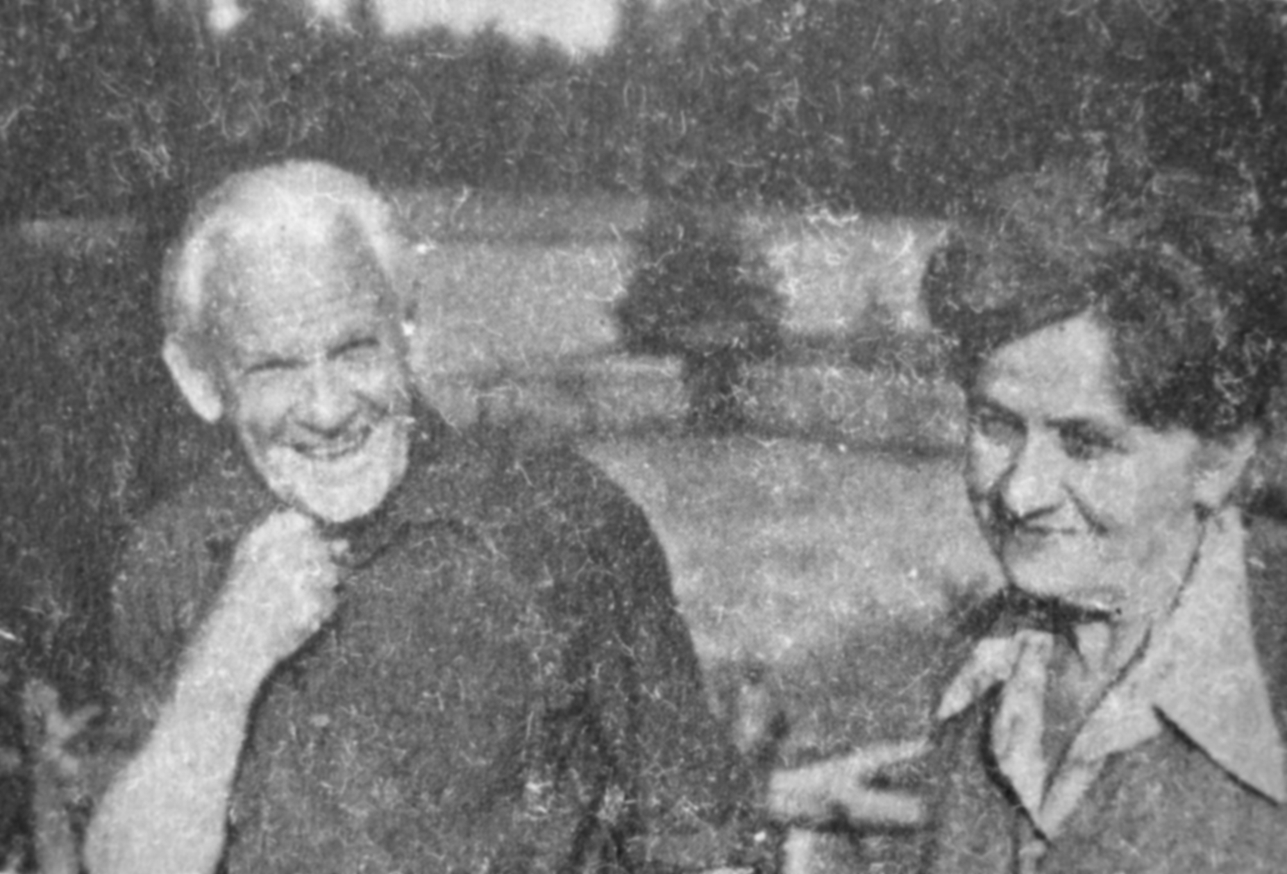 Józef Kret (1895–1982), Polish teacher and scout and his wife Zofia.